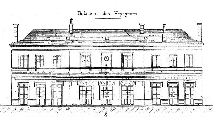 Drawing of the future city of Chambéry railway station (passengers building), in Savoie, France.